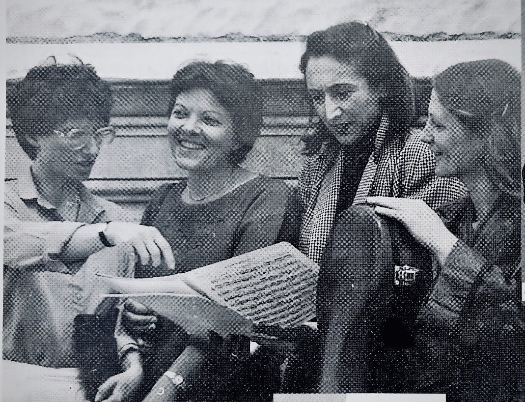 The Quatuor in 1982